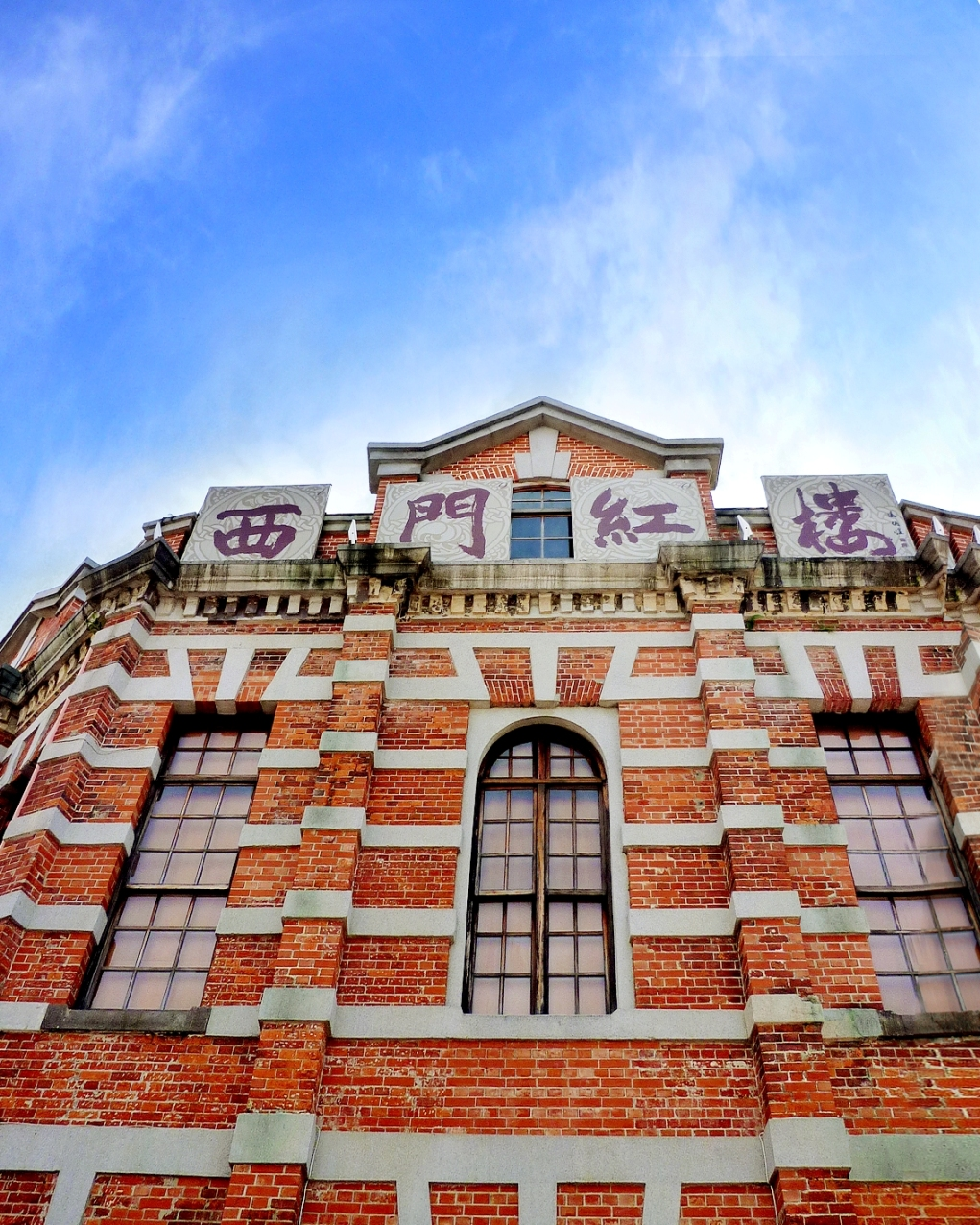 The Red House is Taiwan's first public market and the most well preserved class III historical site. And now The Red House has successfully transformed into a new cultural & creative industries development center in Taipei City.